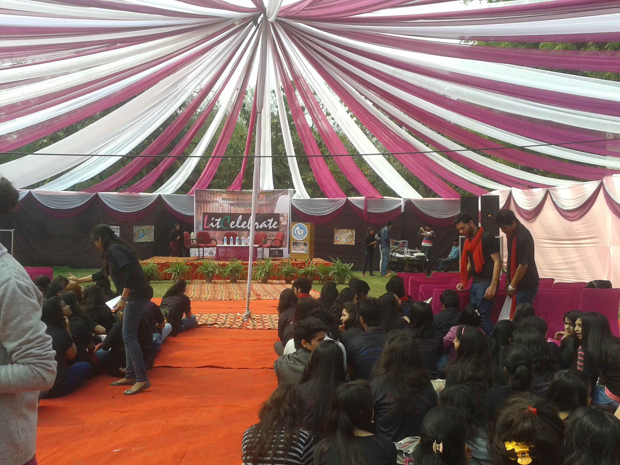 Picture of Lit Celebrate Festival of English department of Motial Nehru College, University of Delhi